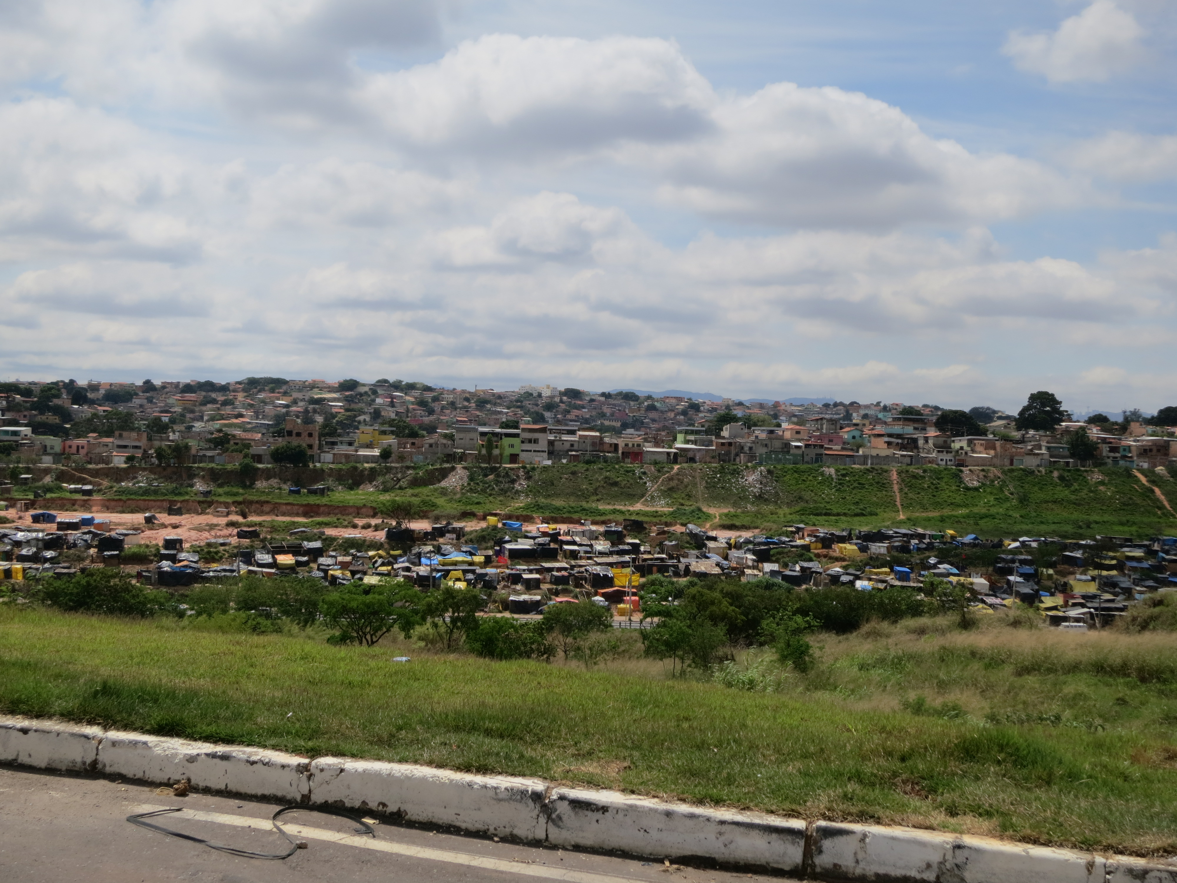 Kennedy, Contagem - MG, Brazil